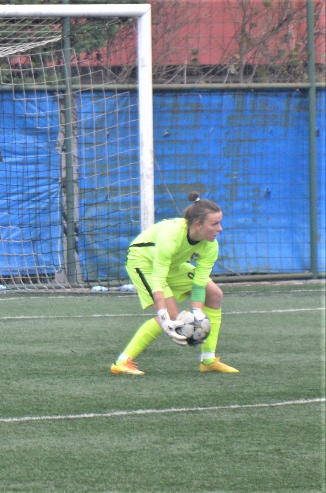 Ekaterina Ulasevich of Amed S.K. in the 2018-19 Turkish Women's First League's away match against Beşiktaş J.K.